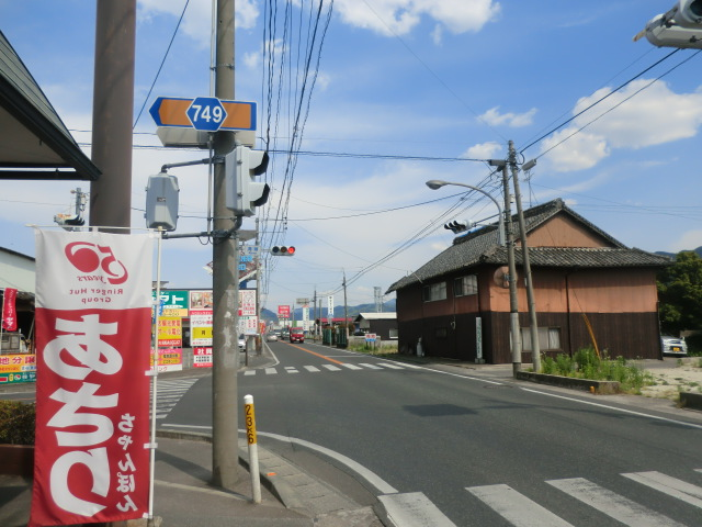 Ending point of Fukuoka Prefectural Road No.749 of Ukiha city,Fukuoka prefecture,Japan.